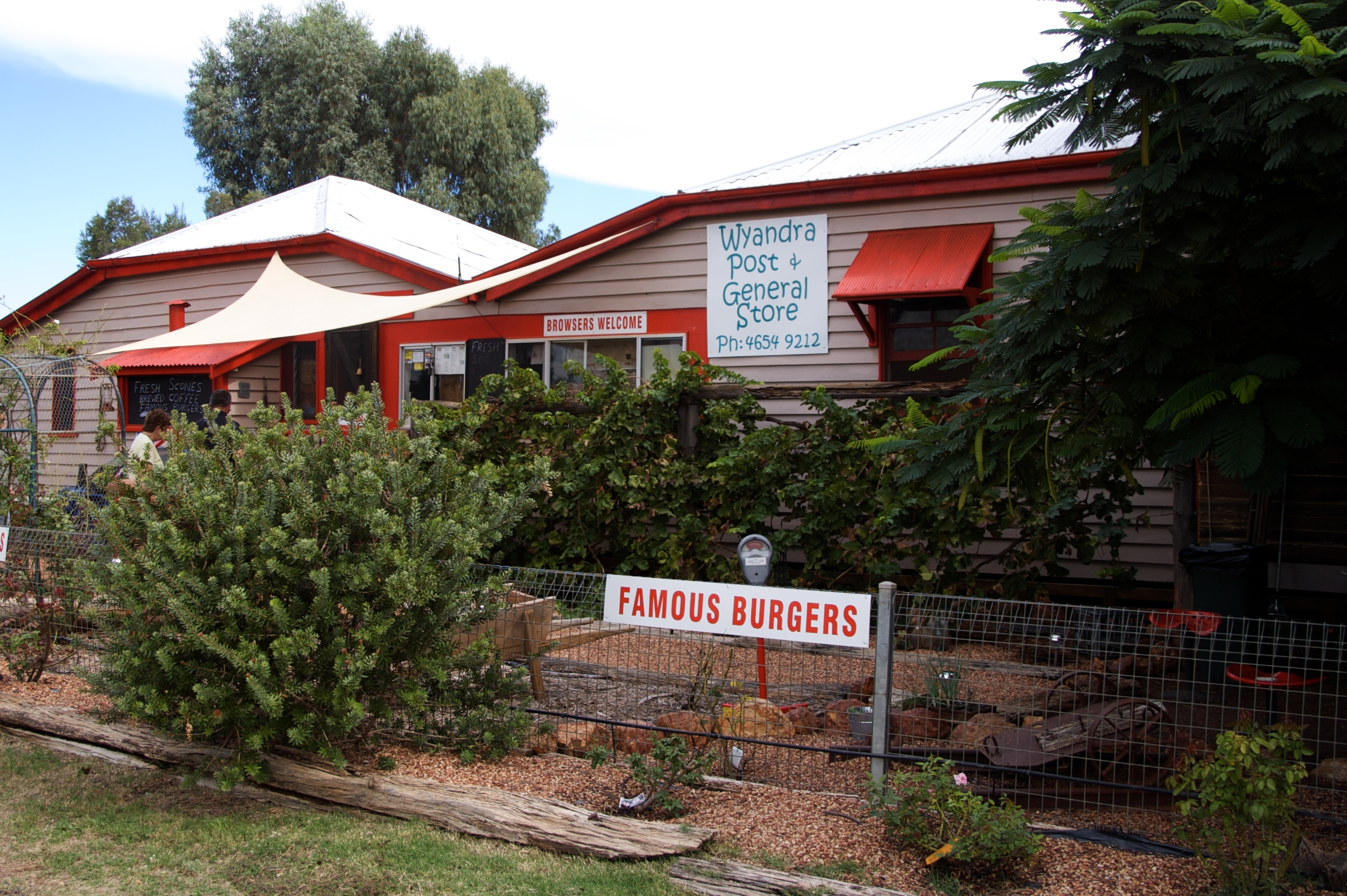 Rival of Theodore.